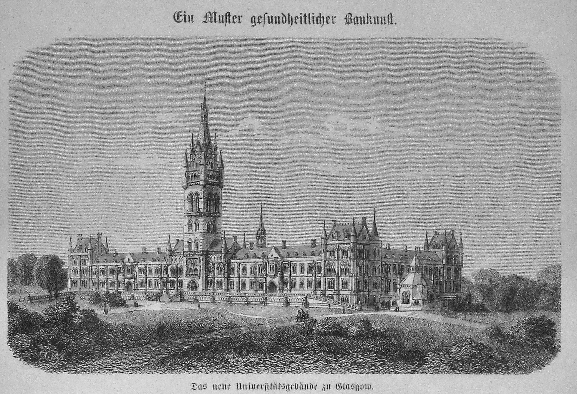 caption: "Das neue Universitätsgebäude zu Glasgow."